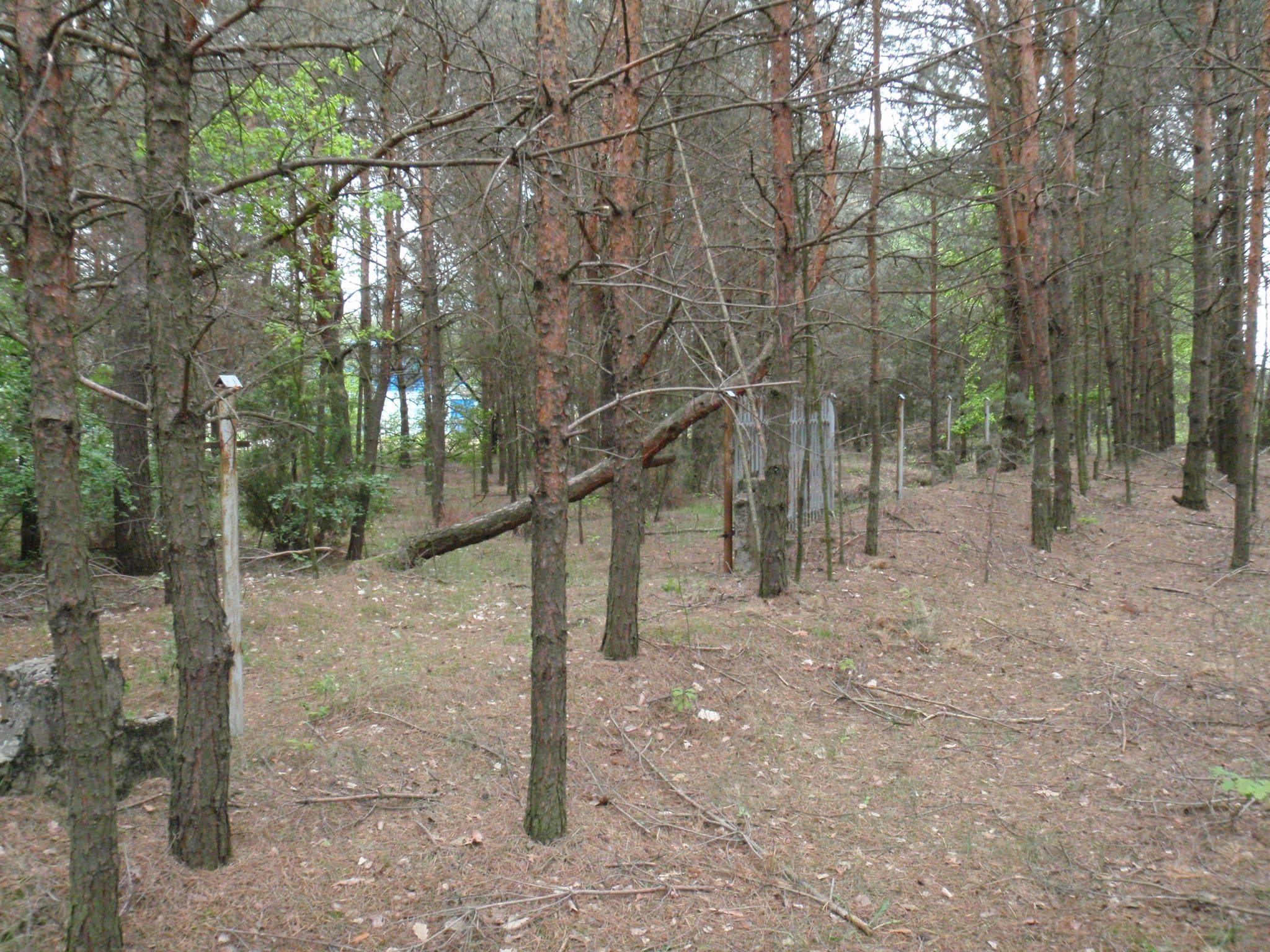 Jewish cemetery in Głowaczów